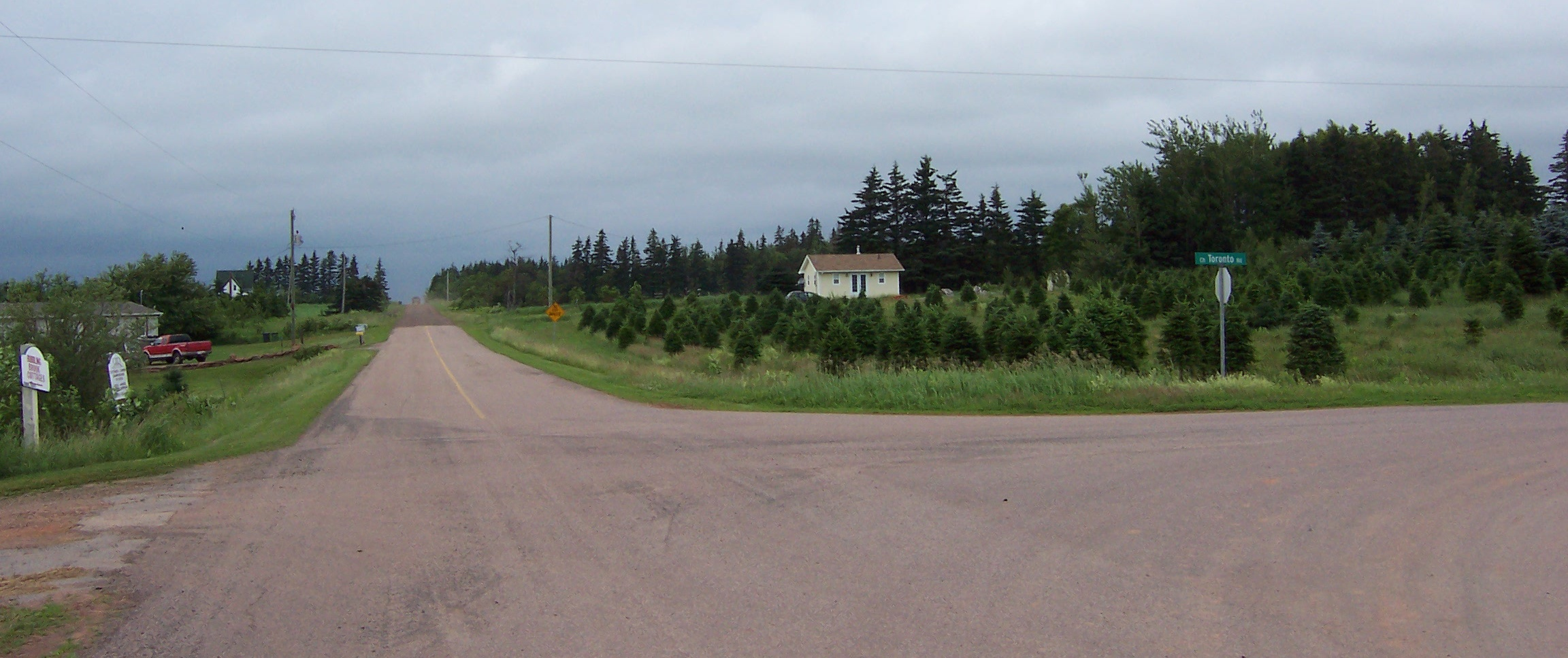 Route 241 (Toronto Road) northbound at intersection with Route 241 (Toronto Road, right) [sic], Toronto Road Ext (straight) and Turner Road (left) in downtown Toronto, Lot 23, Grenville Parish, Queens County, Prince Edward Island, Canada